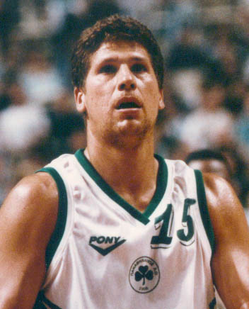 Fanis Christodoulou playing for Panathinaikos, during Greek league A1 playoff finals 1998 against PAOK BC